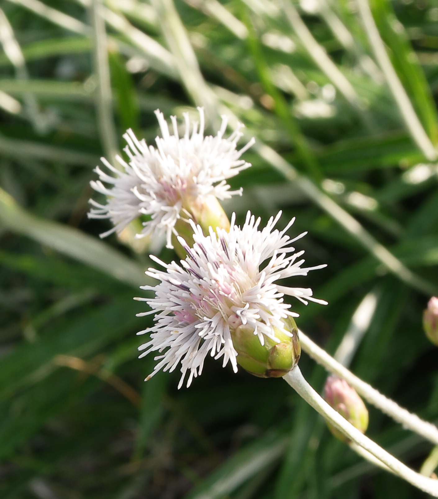 Amphoricarpos neumayerianus